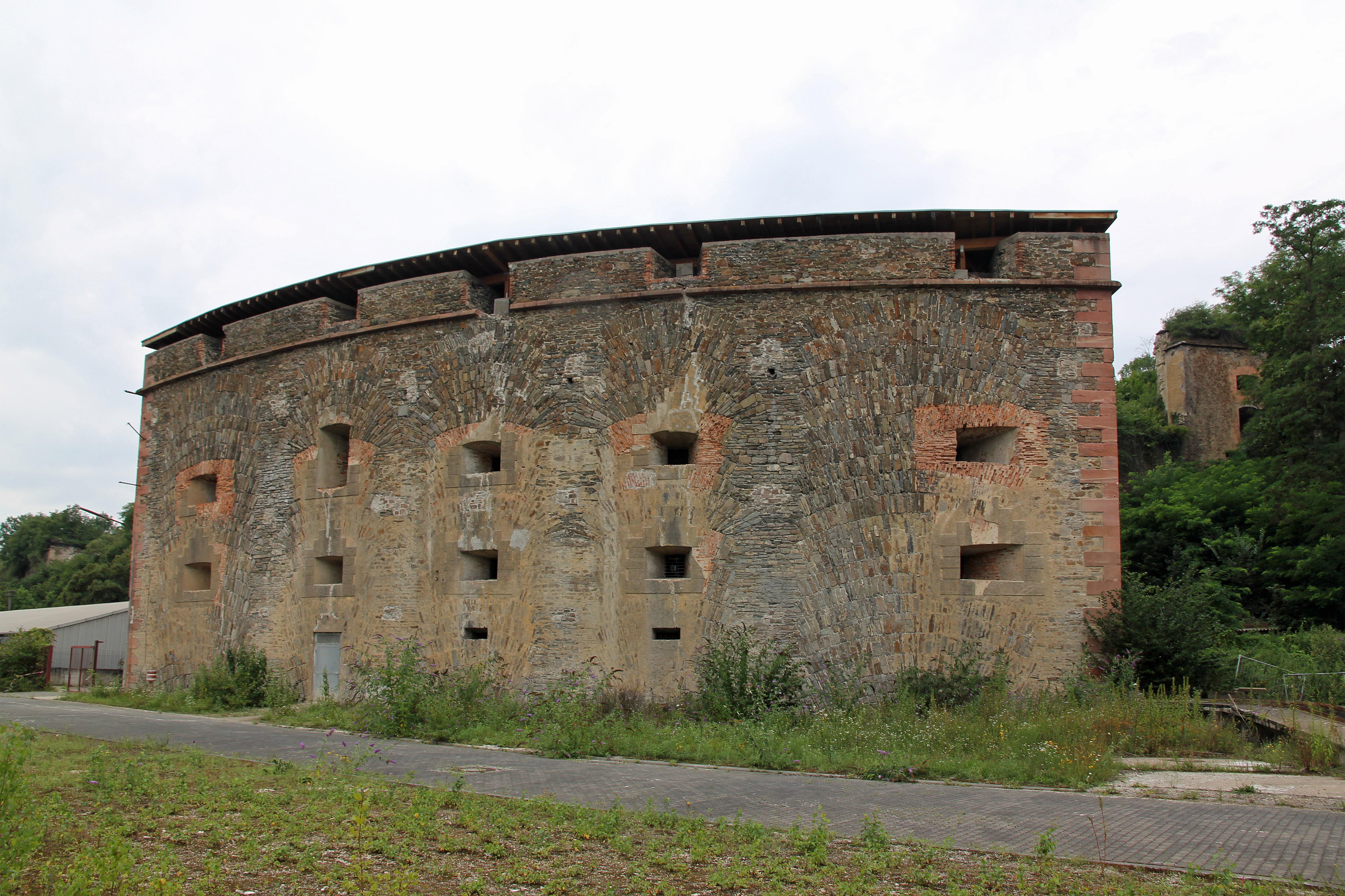 Feste Kaiser Franz in Koblenz